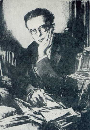 Drawing of Aldous Huxley.